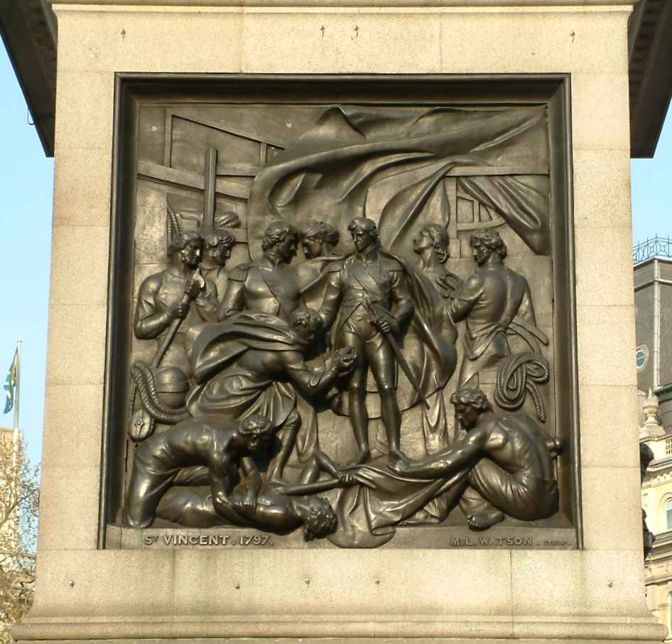 Nelson's Column - East Face of Plinth - Relief - (Battle of Cape St. Vincent) - Trafalgar Square - London - England - 24/04/04 The relief is a depiction of the Battle of Cape St. Vincent, designed by M. L. Watson and - according to Pevsner finished by W. F. Woodington.